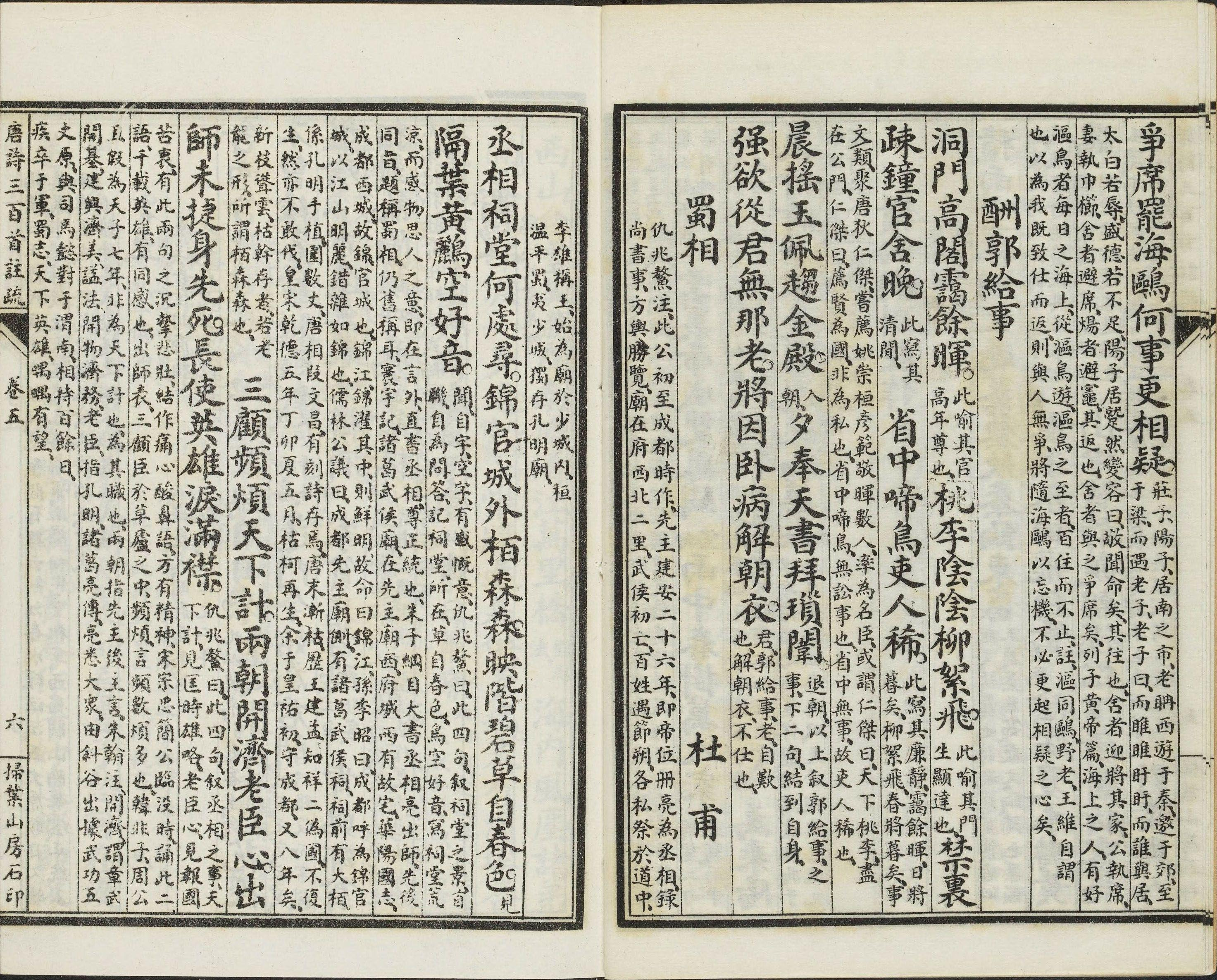 Three Hundred Tang Poems